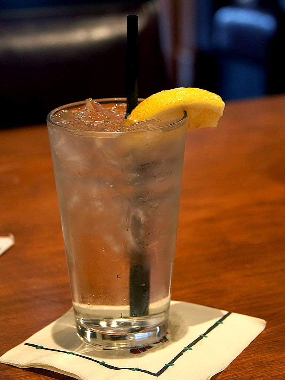 Image title: Ice water with lemon Image from Public domain images website